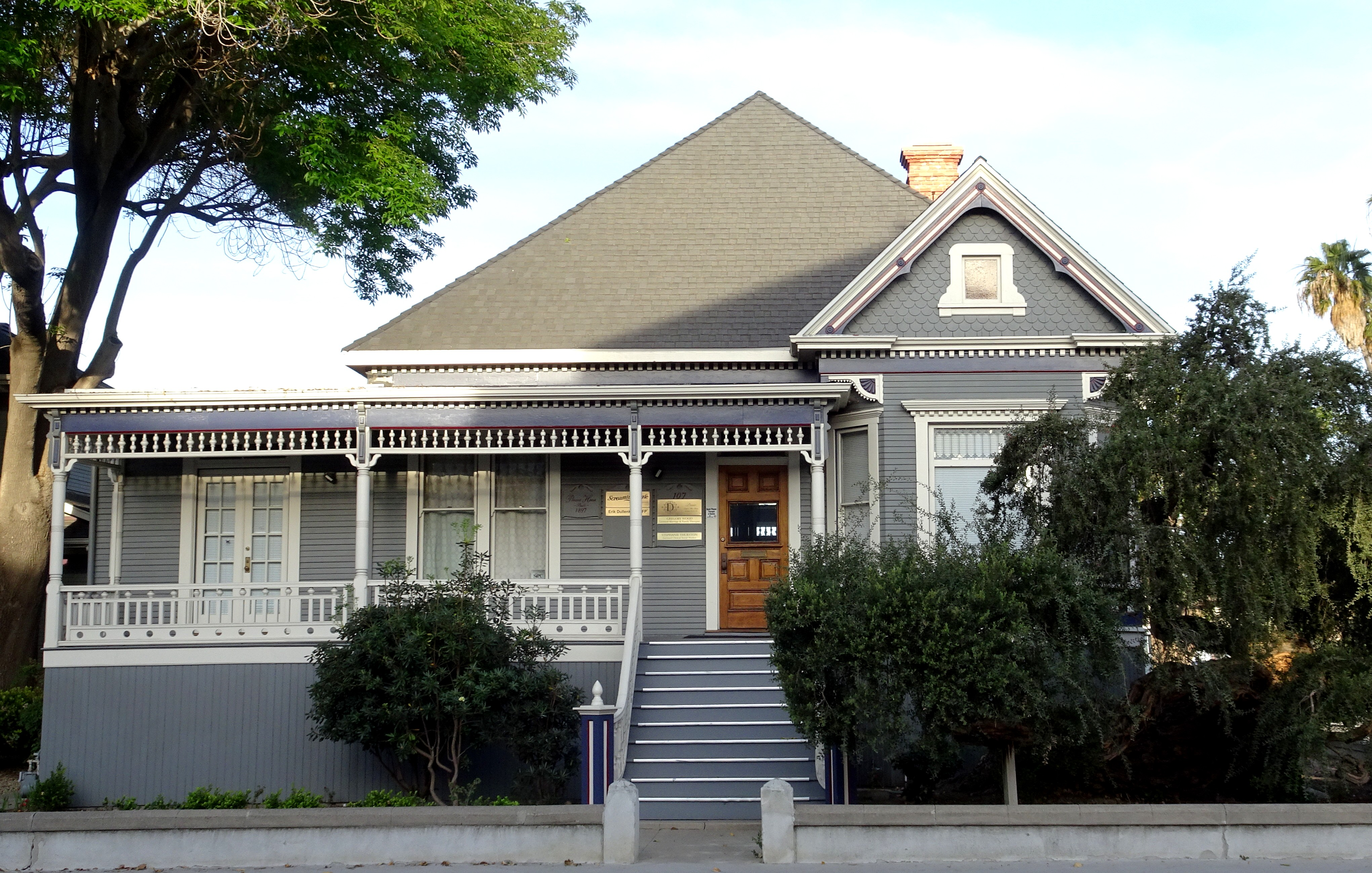 Peirano House, 107 S. Figueroa St., Ventura, California (Ventura Historic Landmark No. 33)